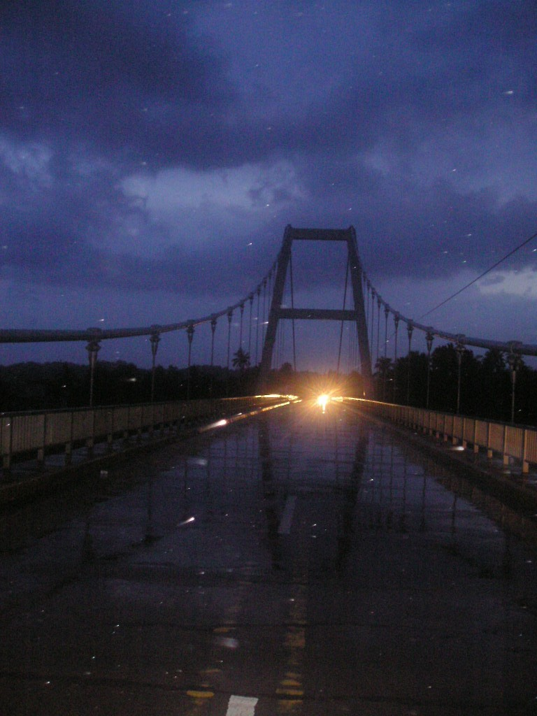 Built in 1978, Magapit Bridge is touted to be Asia's first suspension bridge. This photo was taken at dusk just after a heavy rain storm. Olympus Camedia (SWP North Luzon Cluster Consultations, June 2005). Slightly improved with Picasa.